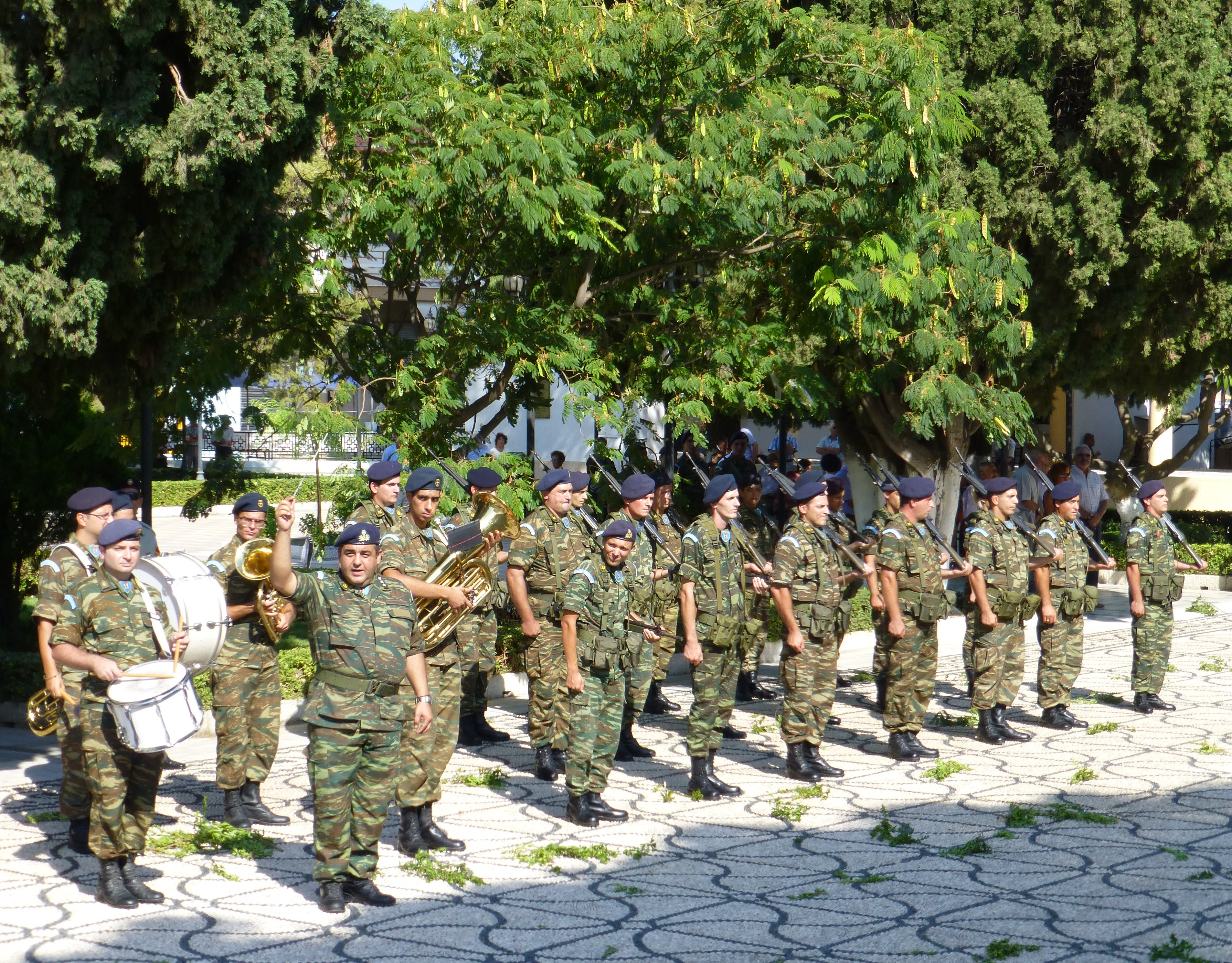 Festival of the Virgin Mary.Kremasti, Rhodes, Greece August 2013